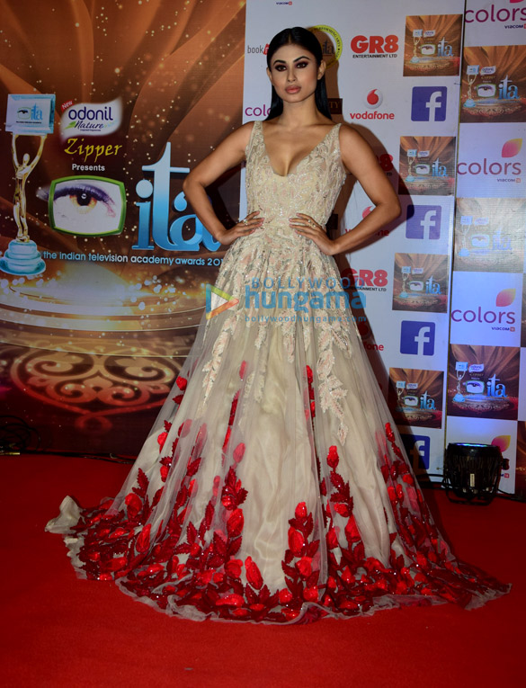 Mouni Roy graces The Indian Television Academy Awards 2017